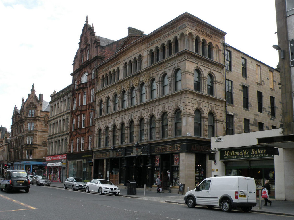 The Britannia, Trongate The Britannia Music Hall, also known as The Panopticon or The Britannia Panopticon after its outer façade was cleaned and repaired. Blue paint which covered the front of building since 1930s removed.